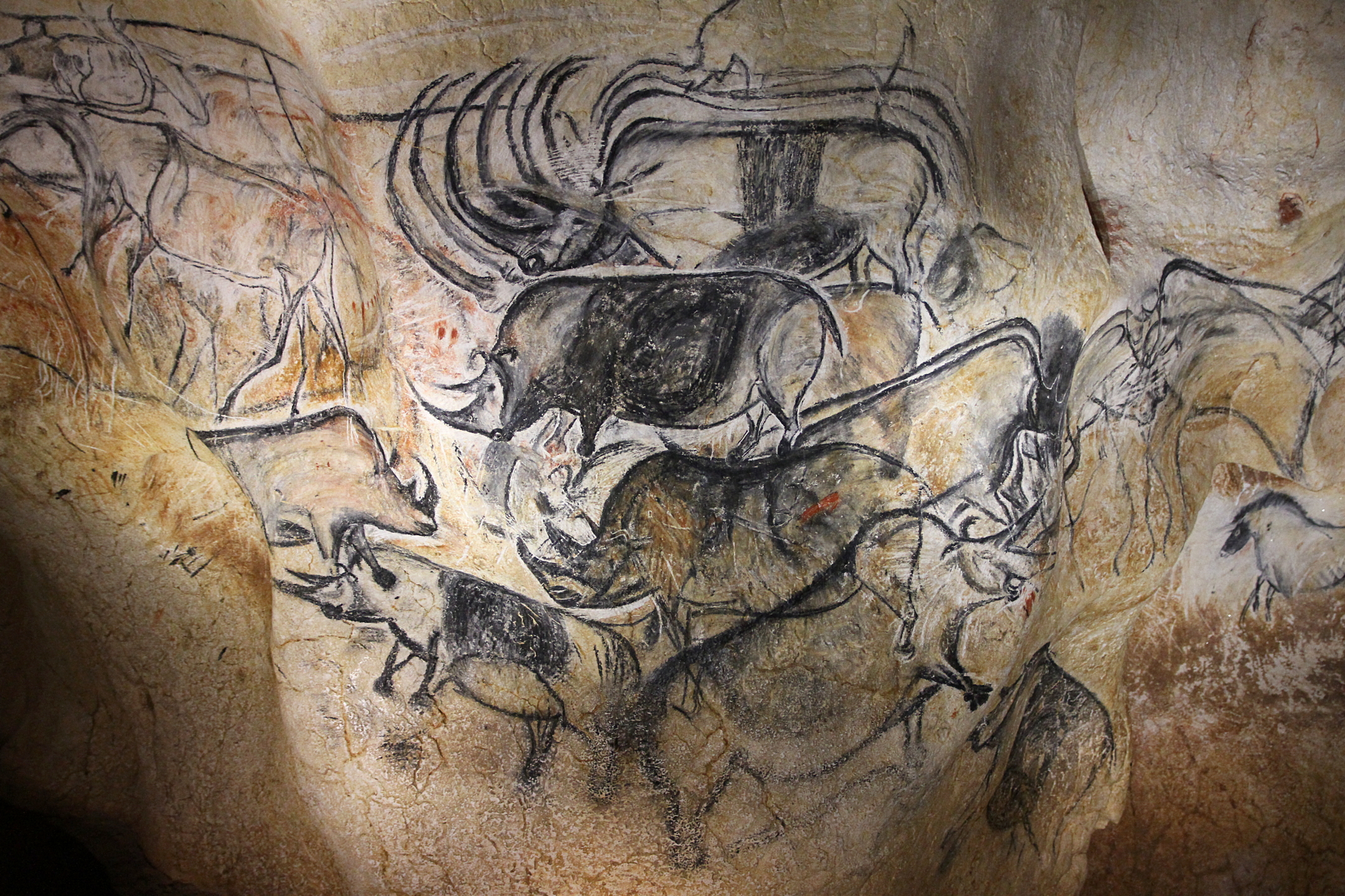 Lions Panel (center left), runaway rhinos (multiplied horn). Wooden charcoal drawings with fading, flint cropping with fading. Pont d'Arc cave (copy of the Chauvet Cave).